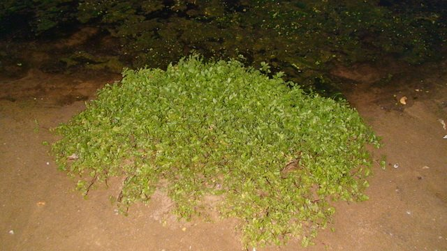 نباتات برية سورية تؤكل